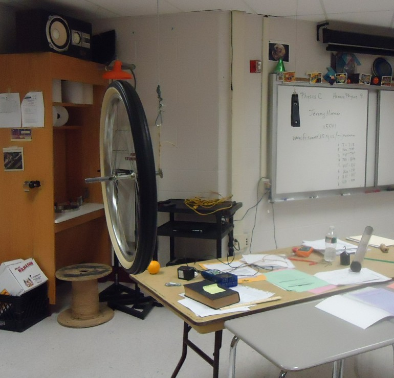 A physics demonstration at Summit High School. The spinning bicycle wheel was suspended by a cable, but it did not fall over because of the rotational dynamics.